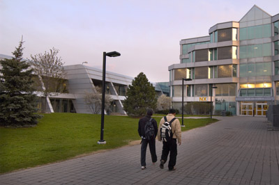 Humber College North Campus main entrance